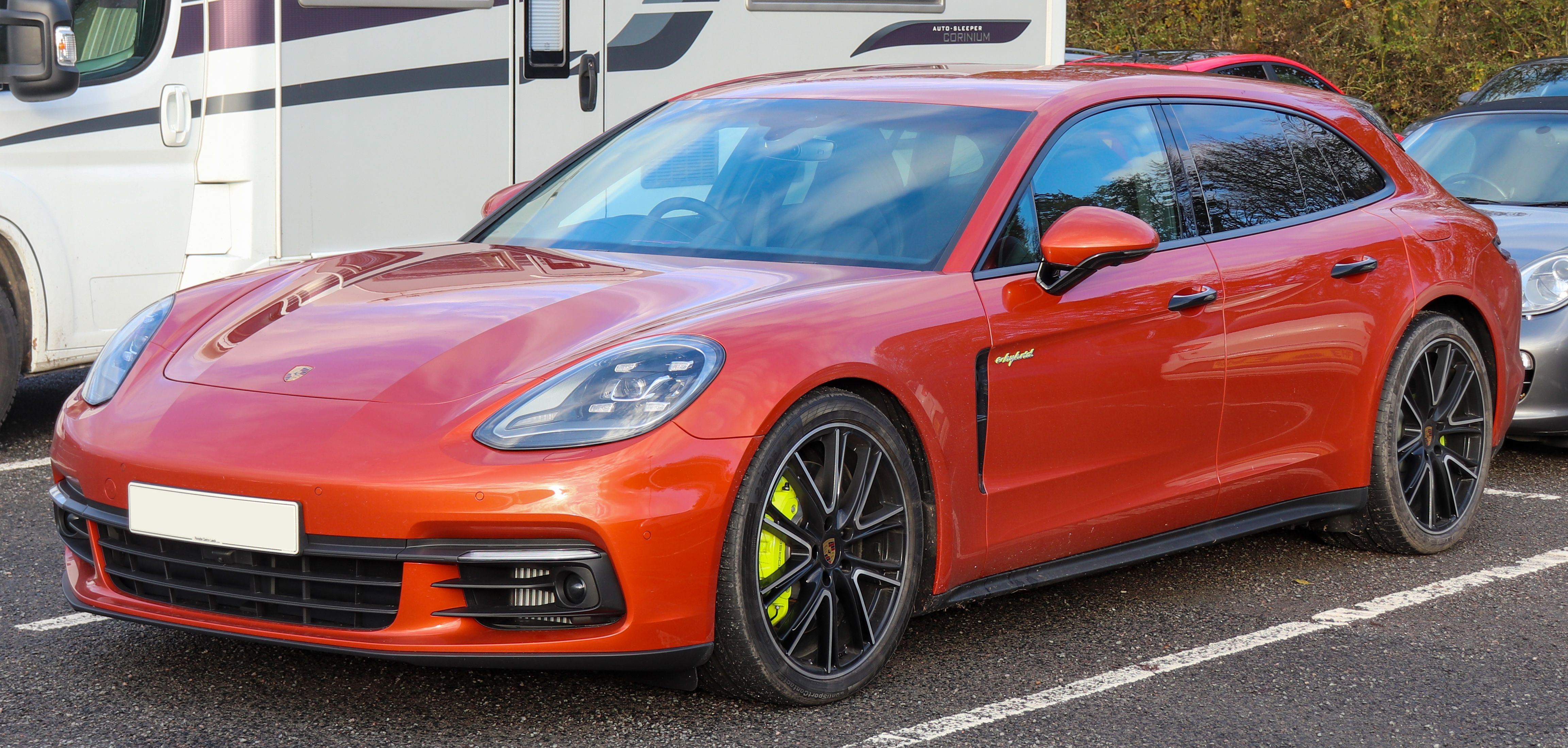 2019 Porsche Panamera 4 E-Hybrid Sport Turismo 2.9 Taken in the NEC Car Park, Birmingham